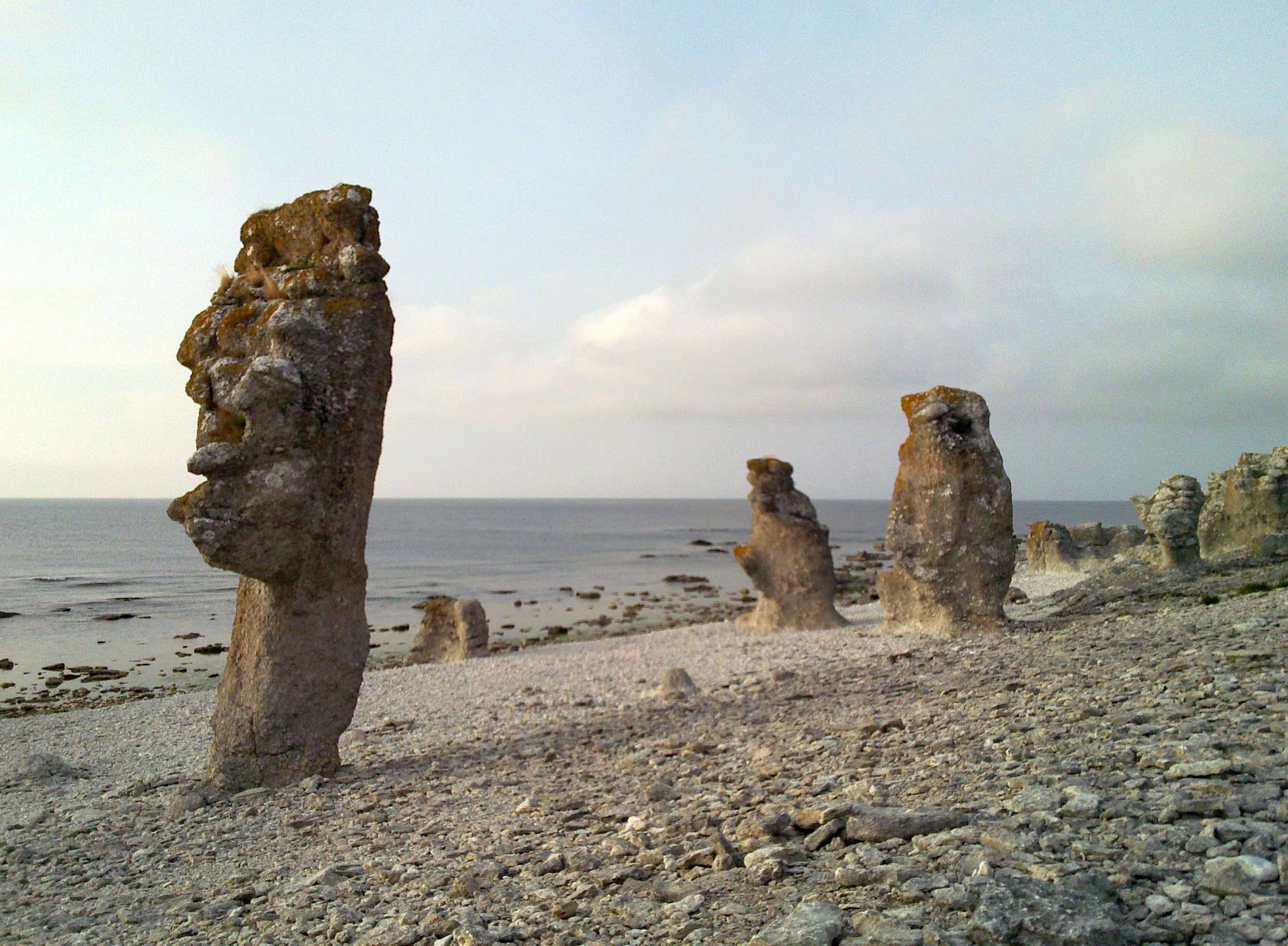 Langhammaren rauk, located on Fårö near Gotland, Sweden